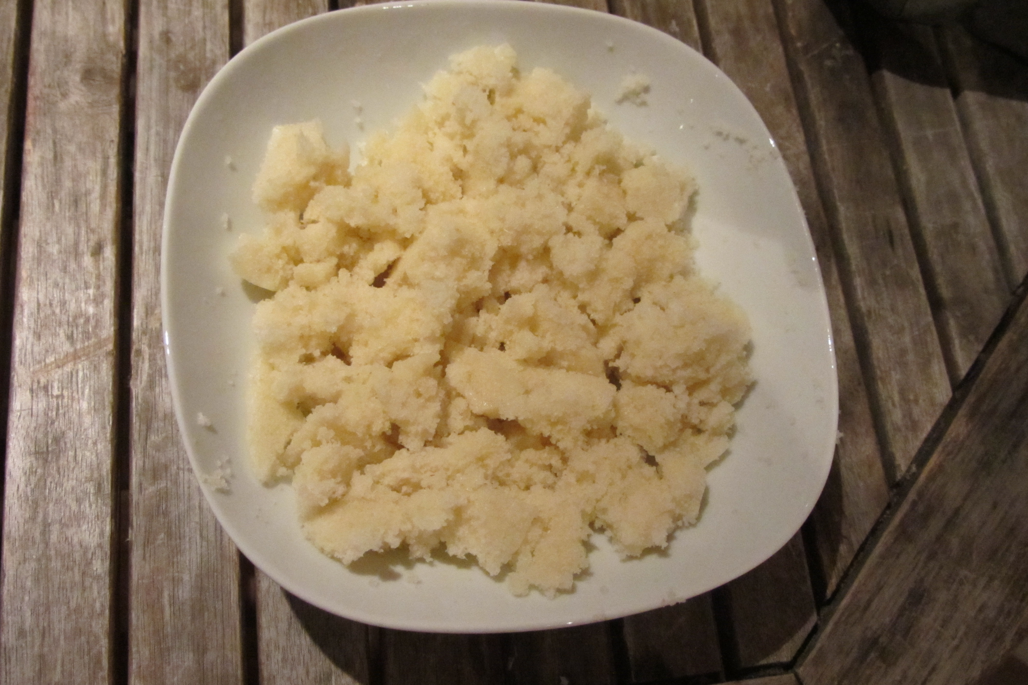 Attiéké, couscous of cassava. Culinary speciality from Côte d'Ivoire